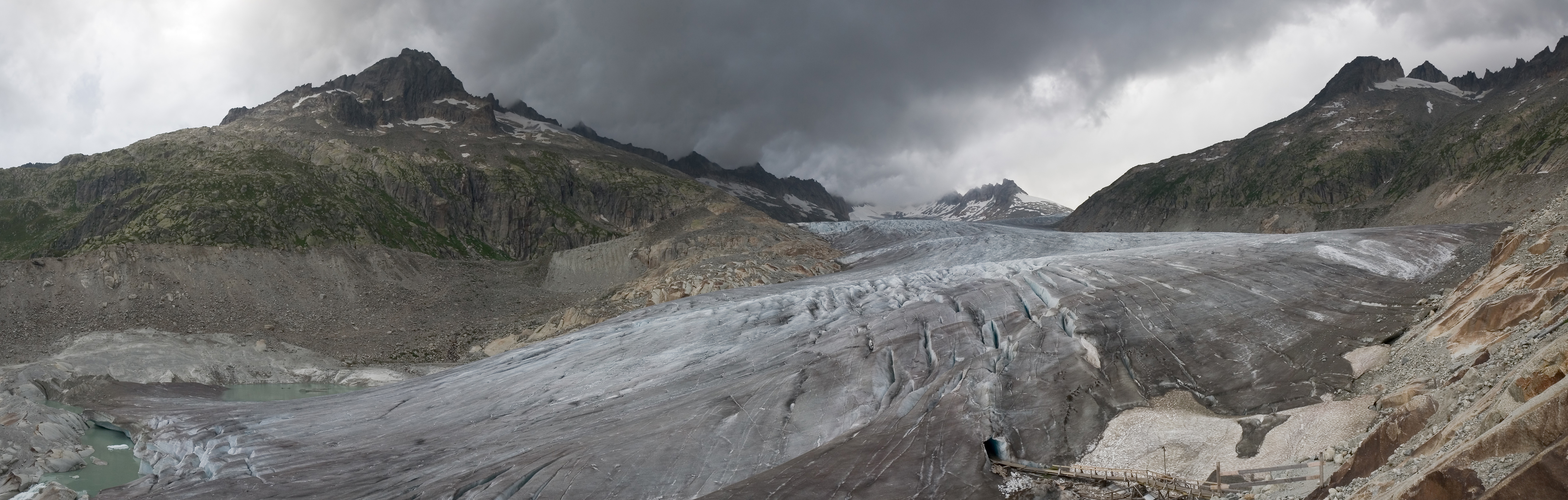 The Rhône Glacier in Oberwald (Swizerland).